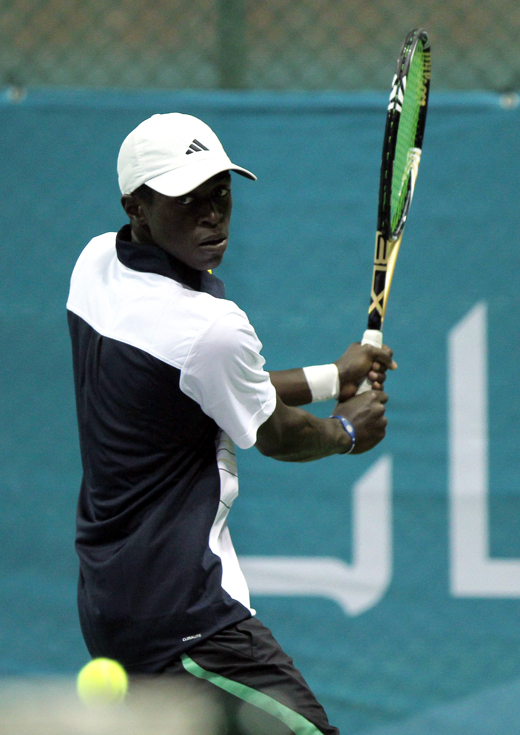 Qatari tennis player Mousa Shannan in action during the Doha Arab Games at the Khalifa International Tennis Stadium. Picture by Vinod Divakaran